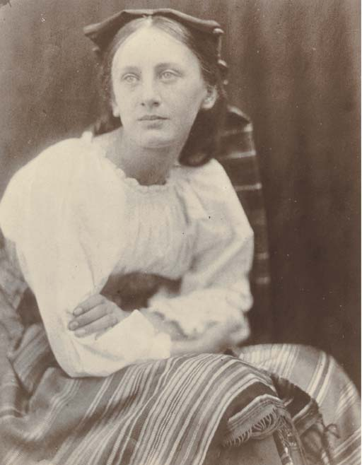 "The Neapolitan (May Prinsep), 1866," albumen print, image by the British photographer Julia Margaret Cameron of her cousin May Prinsep. 10¼ in. x 8 1/8 in. (26 cm. x 20.6 cm.) Courtesy of Christie's.